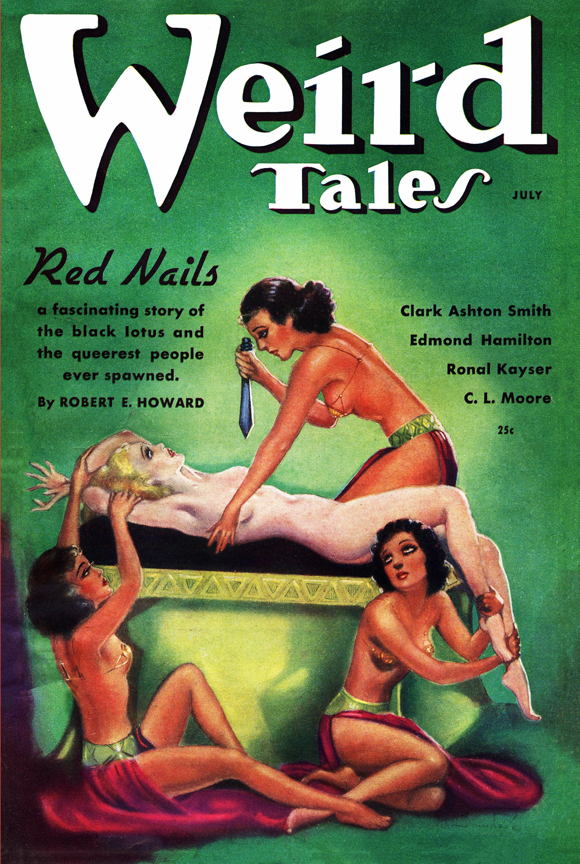 Cover of Weird Tales (July 1936): The feature story is Robert E. Howard's "Red Nails".